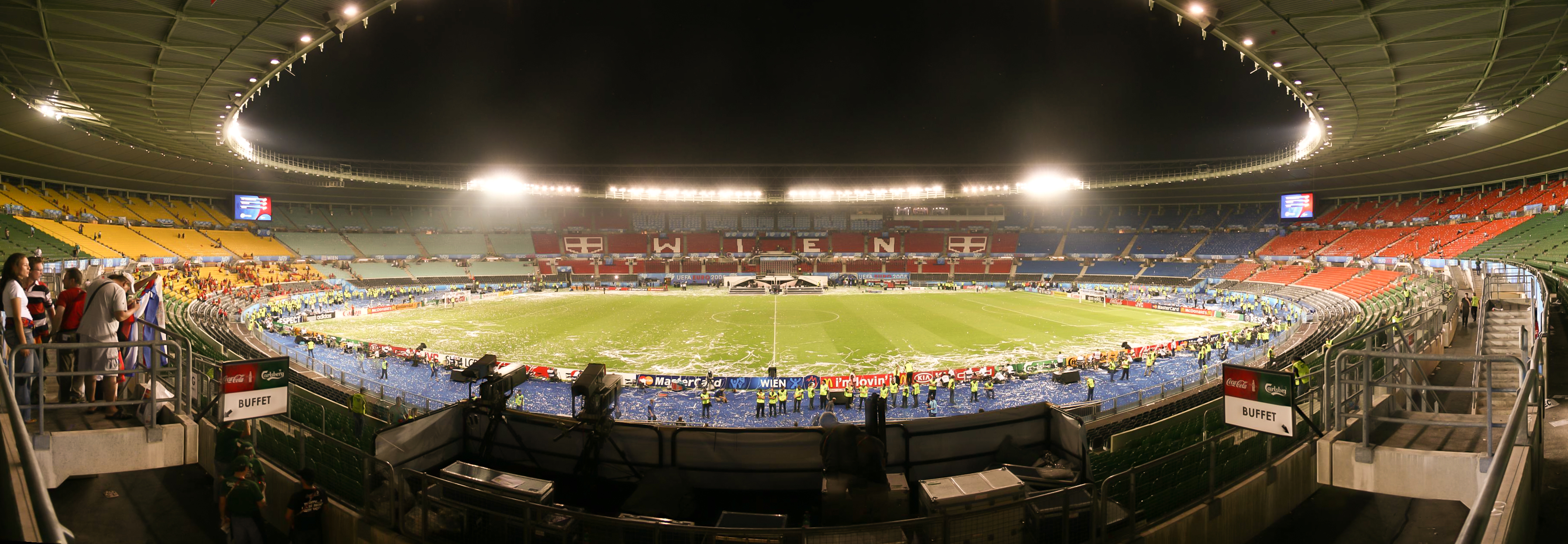 Ernst-Happel-Stadion in Vienna during UEFA Euro 2008